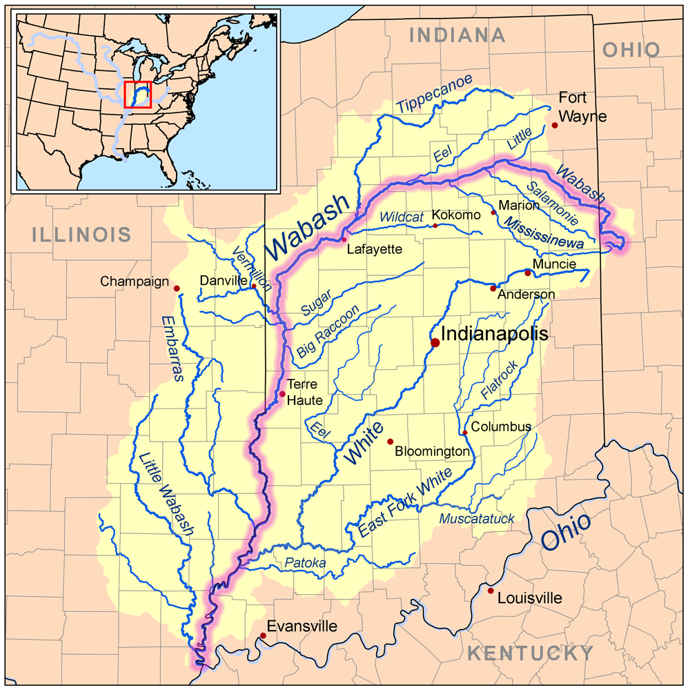 Map of the Wabash River watershed.